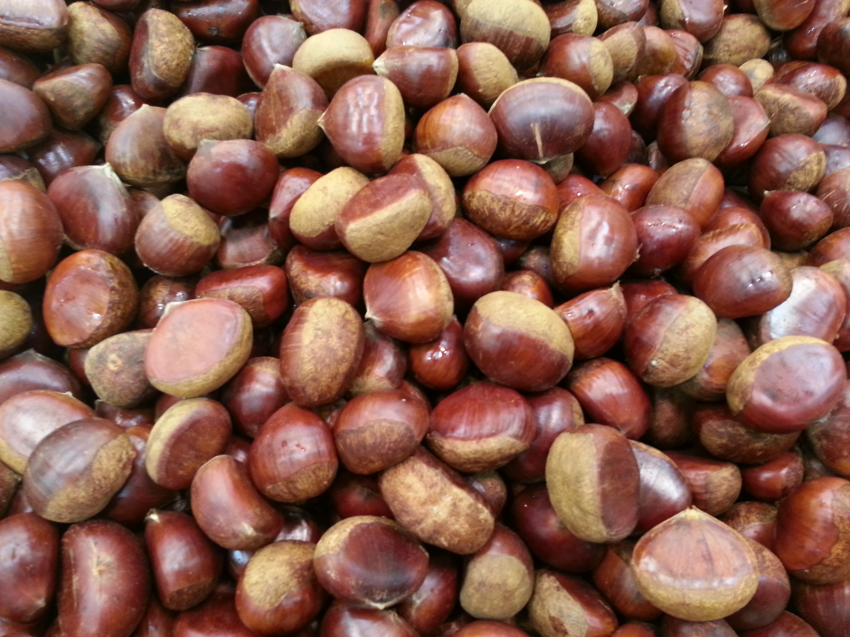 These are chestnuts.